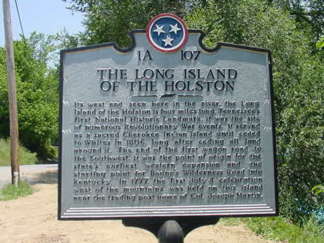 I took this picture a few years back, not hard to take a picture.